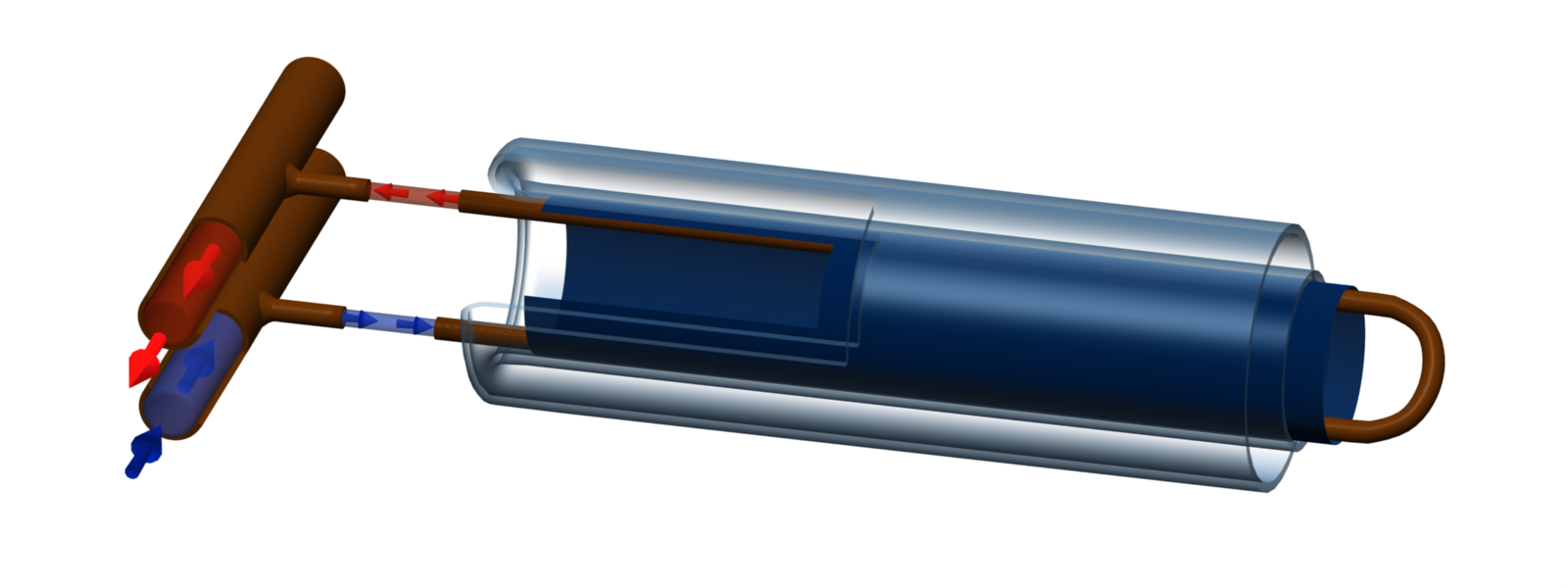 Vacuum solar collector - double tube